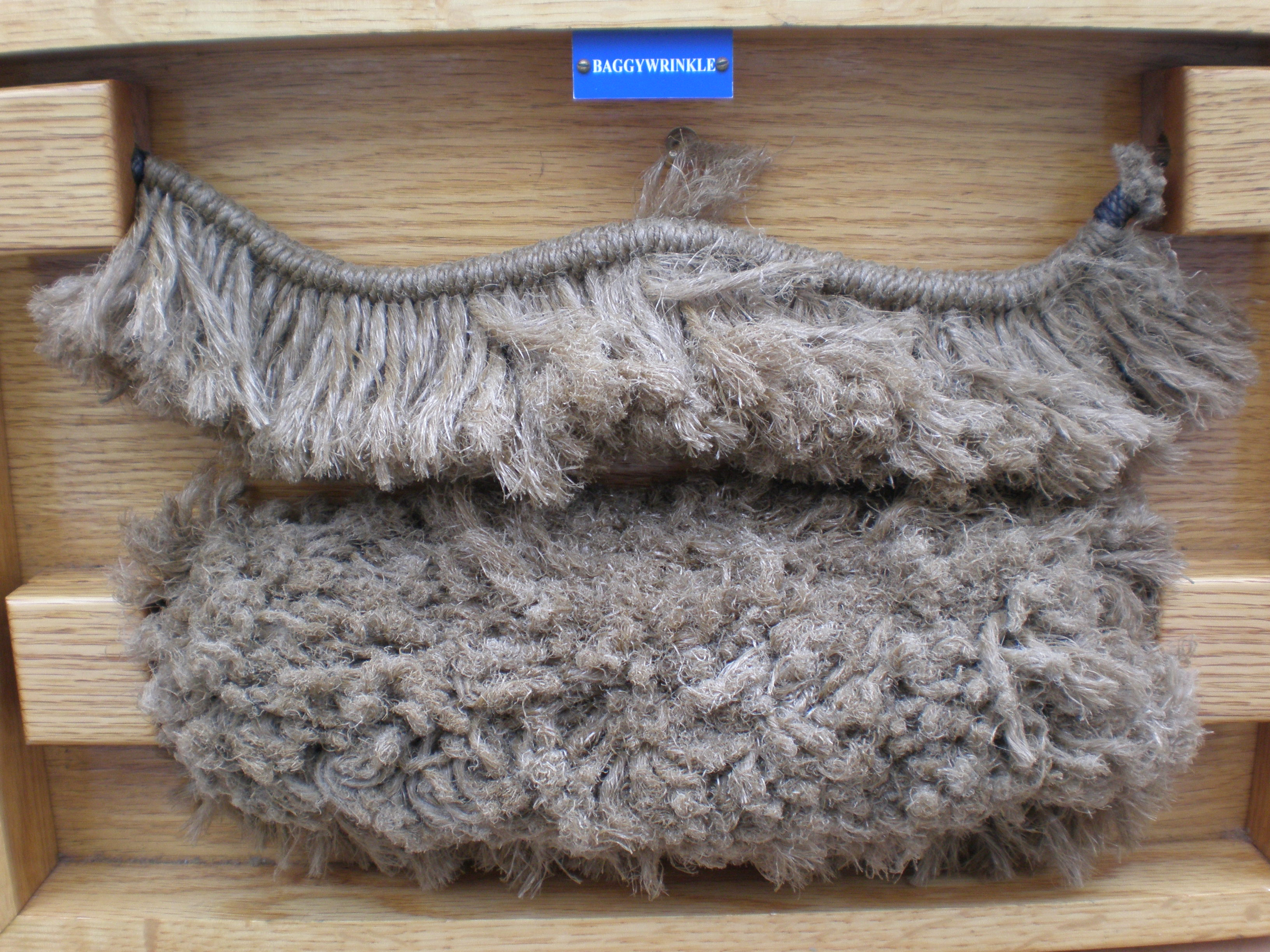 A sample of baggywrinkle displayed on the USCGC Eagle (WIX-327) while docked during the Festival of Sail San Francisco 2008.